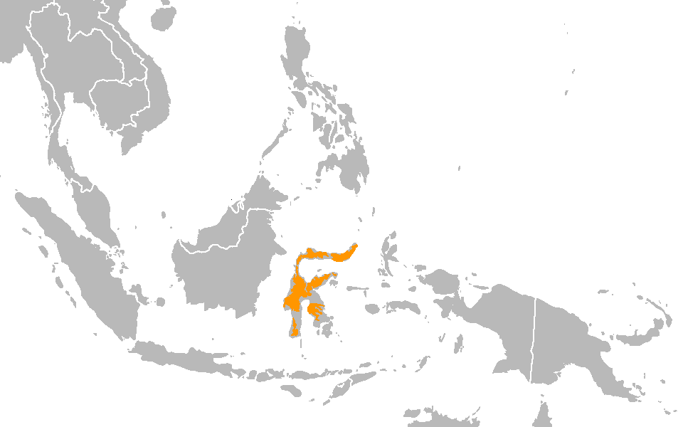 Range map of sombre pigeon (Cryptophaps poecilorrhoa) based on IUCN data